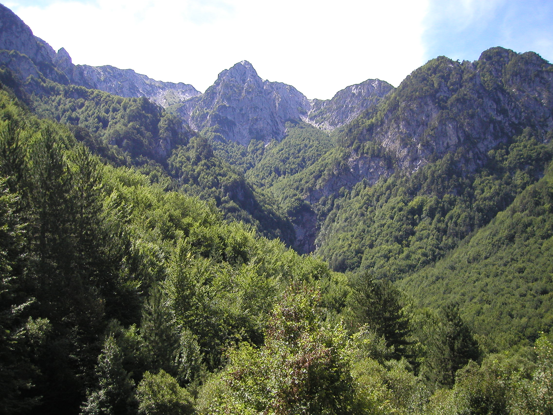 Camosciara